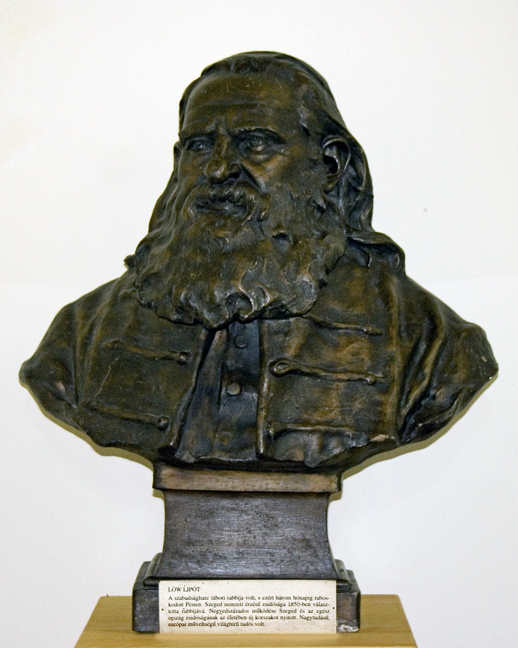 Leopold Löw old statue in Szeged, in the synagogue Statue reads: The 1848 Hungarian Revolution was a rabbi, and after the loss of the revolution, he was imprisoned for three months. Szeged national patriotic Jews of 1850, he was elected rabbi. 25 years of operation, open a new era in the life of the city of Szeged. It was a sophisticated, European-educated rabbi.